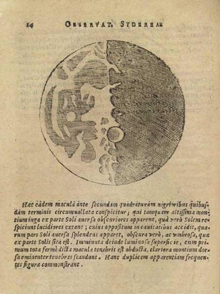 A detailed page of Sidereus Nuncius by Galileo Galilei